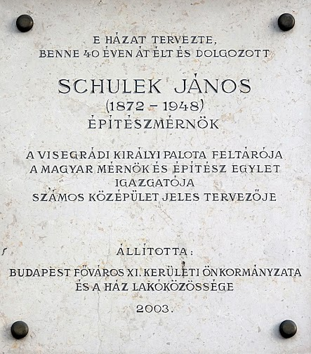 János Schulek commemorative plaque in Budapest District XI, Bartók Béla Street No 78.